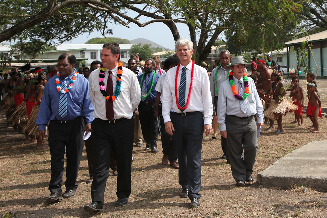 Secretary of the PNG Department of Education, Joseph Pagelio, Australia's former Parliamentary Secretary for Pacific Island Affairs, Richard Marles, and High Commissioner to PNG, Mr Ian Kemish, are welcomed to the PNG Education Institute for the launch of the teacher training facilities.